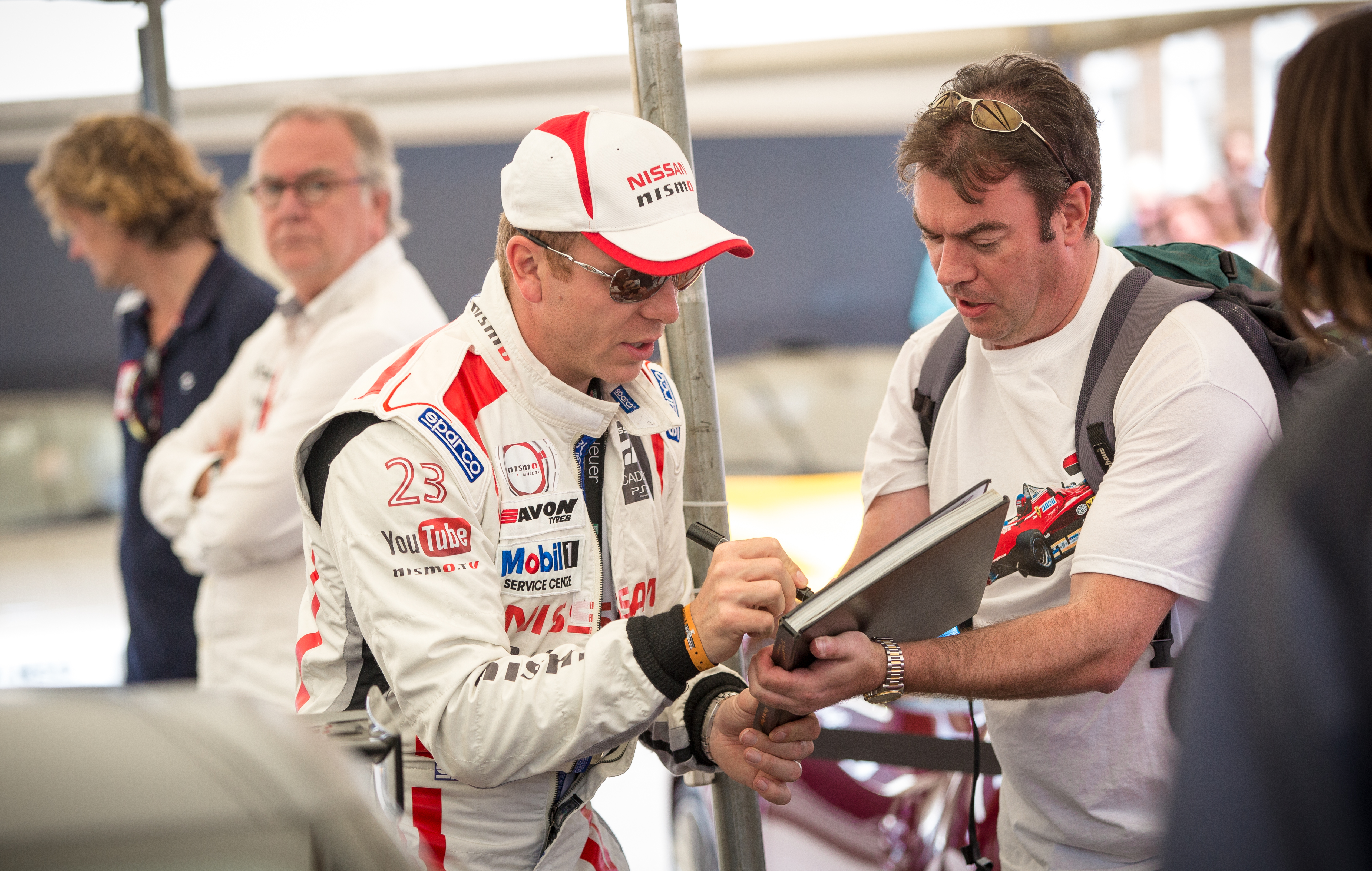 See more photos and video at